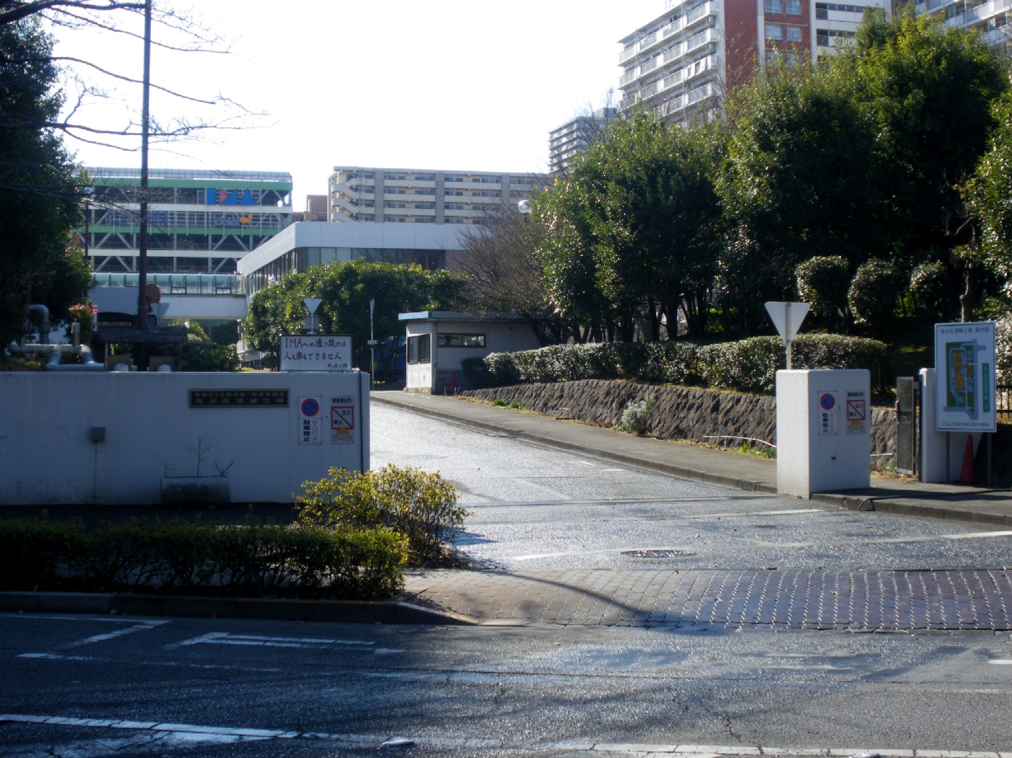 Nerima Hikarigaoka Waste Disposal Center